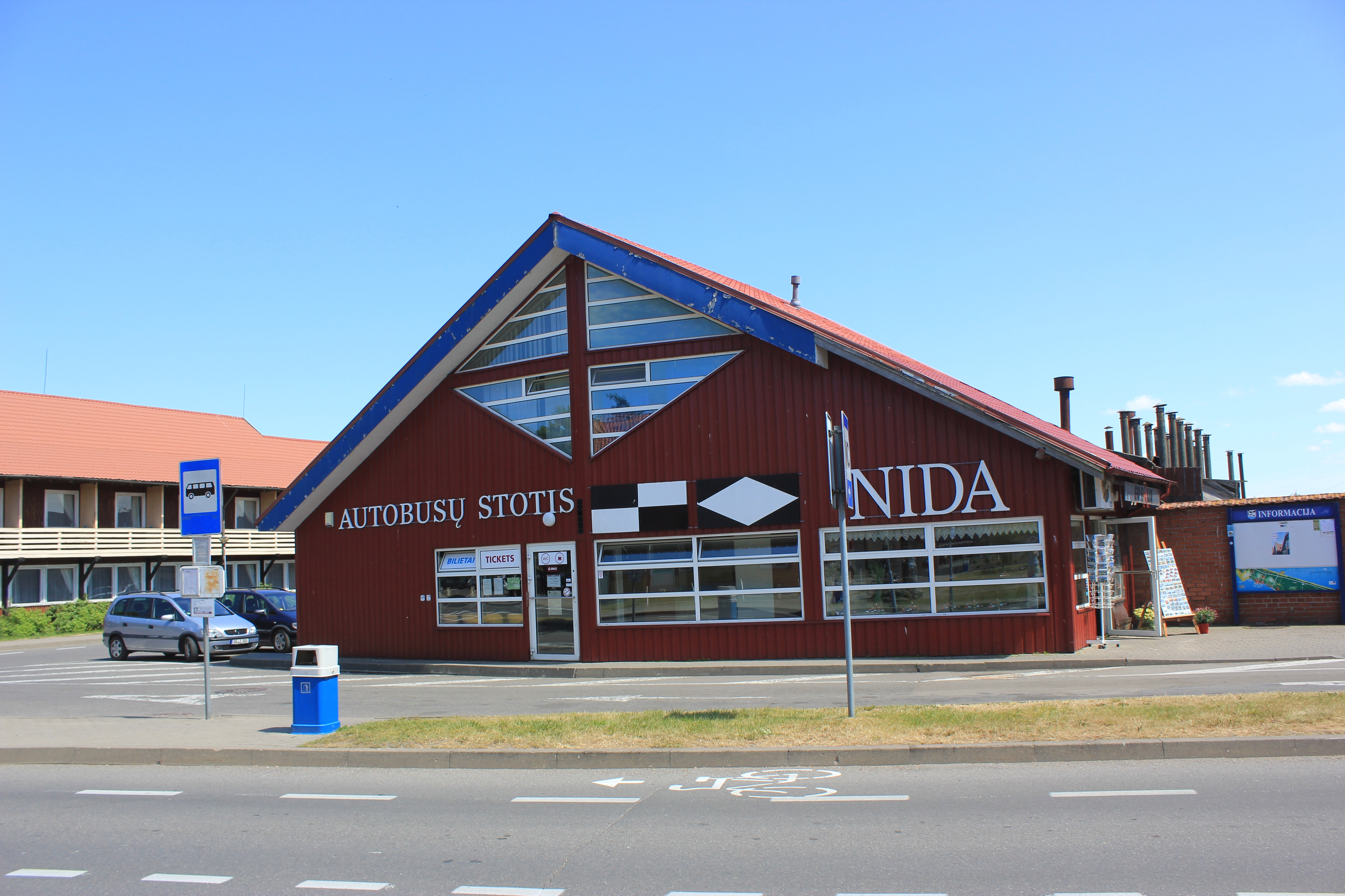 Nida - bus station